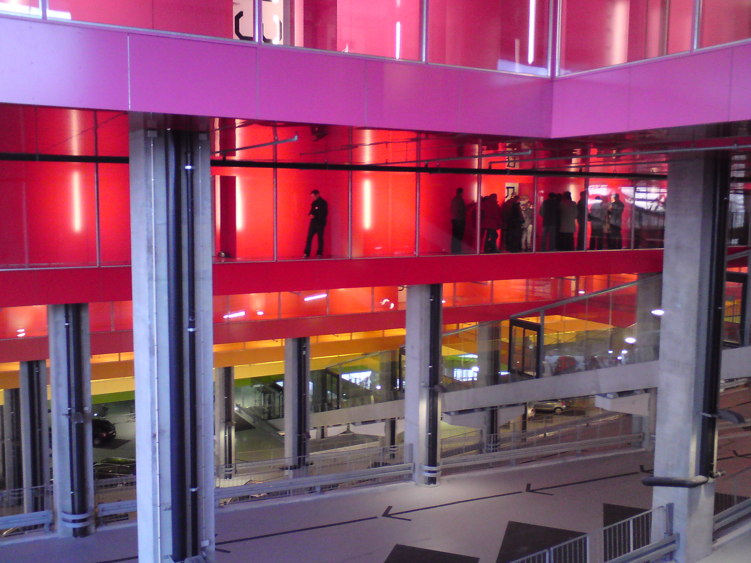 The interior of Mountain Dwellings, a building by Bjarke Ingels Group in the Ørestad district of Copenhagen, Denmark